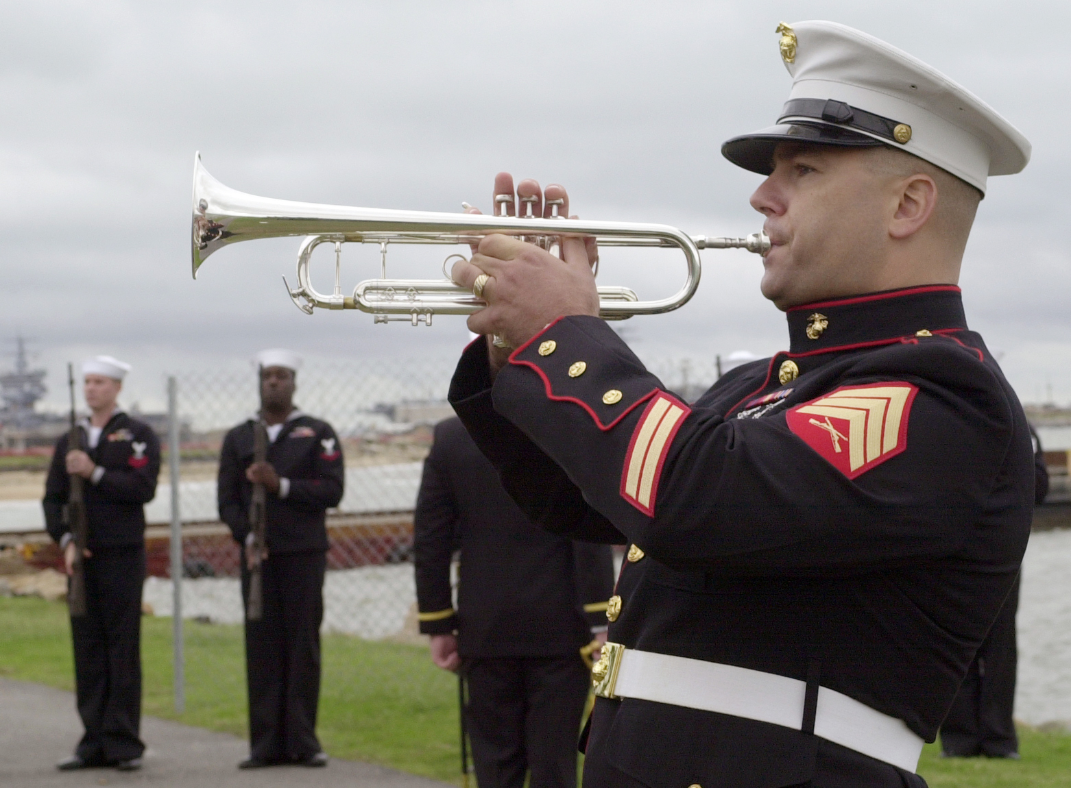 Norfolk, Va. (Oct. 12, 2005) – U.S. Marine Corps Sgt. Daniel Hersey, a trumpet player from the Armed Forces School of Music, plays taps during the 5th anniversary memorial ceremony for the sailors killed during the infamous attack on the guided missile destroyer USS Cole Oct. 12, 2000. The ceremony was held at the USS Cole memorial to commemorate the 5th anniversary of the bombing in Yemen, which claimed the lives of 17 crew members.